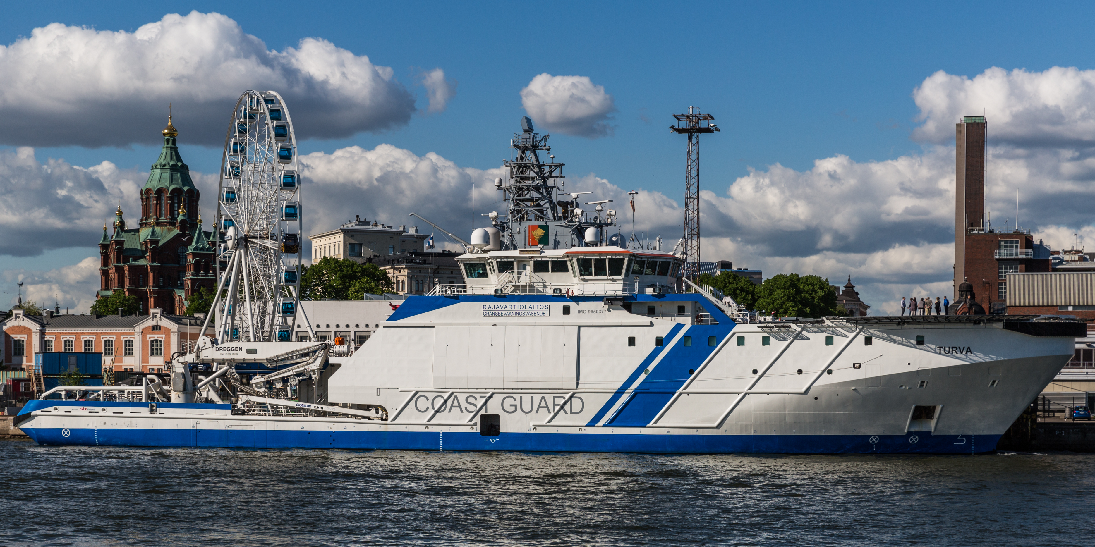 Finnish Border guard ship Turva at Katajanokka, Helsinki